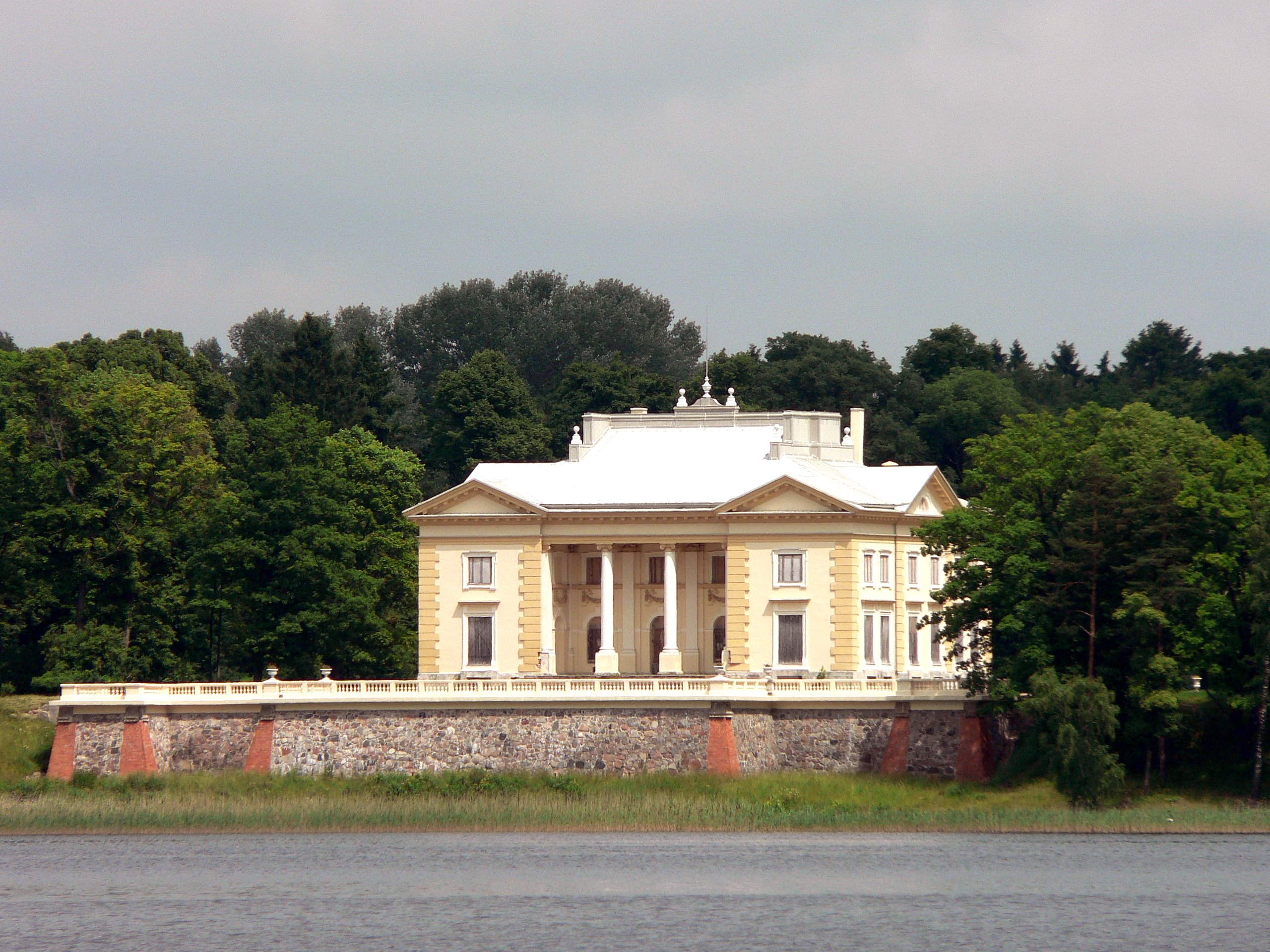 Tyszkiewicz palace in Trakai, Lithuania.